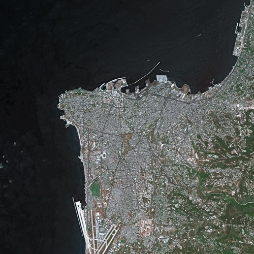 Beirut by SPOT Satellite